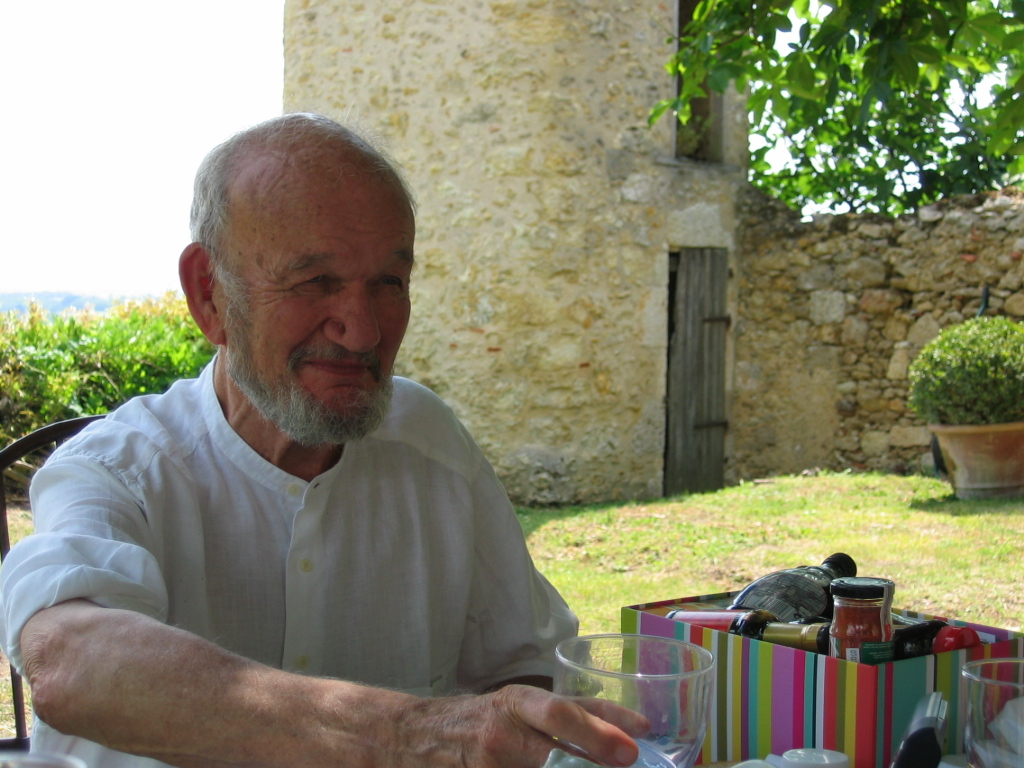 Norval White enjoys a sunny day in Roques, June 12, 2006